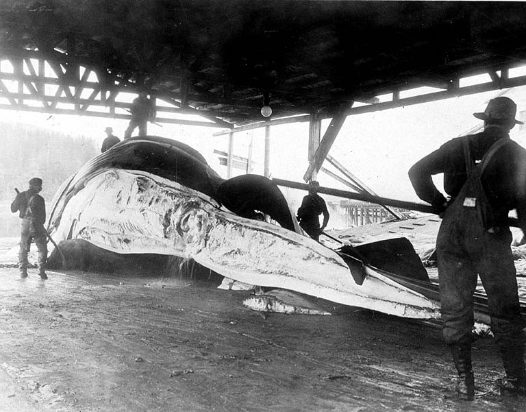 From John Cobb field notebook: Tearing strips of blubber off the whale, Aug. 25, 1910 Subjects (LCTGM): Dead animals--Alaska--Tyee Subjects (LCSH): Tyee Company; Whaling--Alaska--Tyee; Whales--Alaska--Tyee